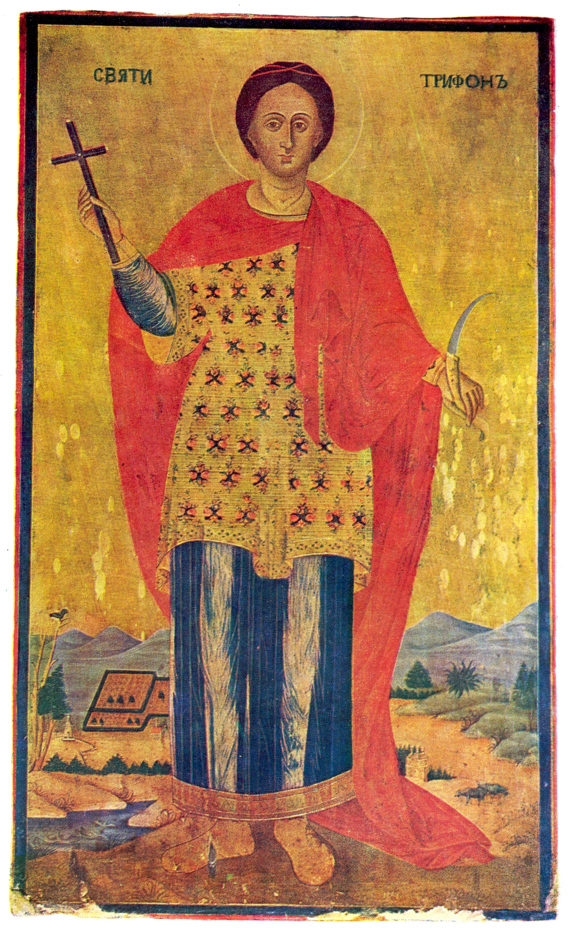 "Saint Triphon", icon of Dimitar from Sozopol, Bulgaria, year 1857, Tempera on wood, 93/56 cm, church "Saint George", Sozopol